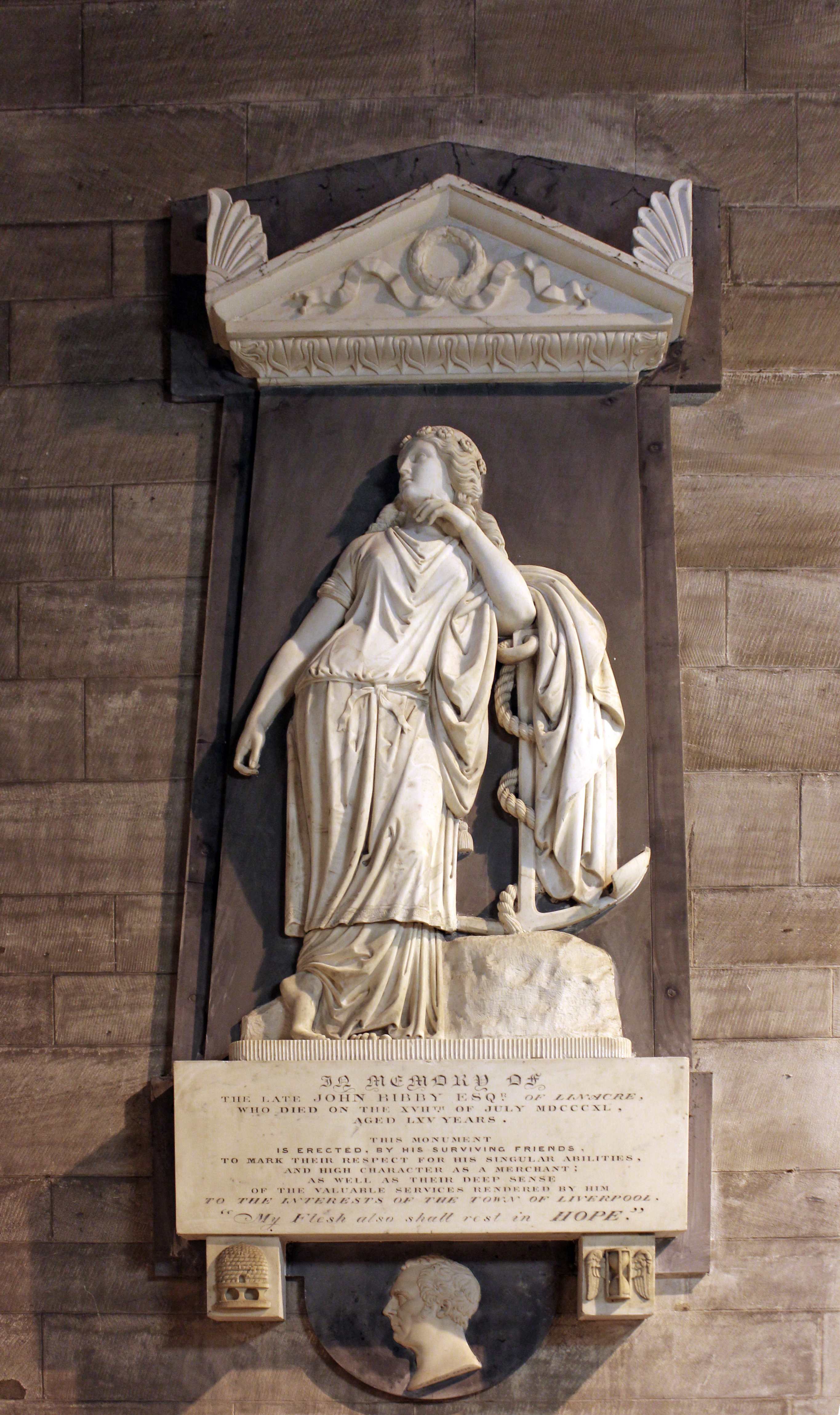 Memorial to John Bibby (1775 - 1840), a major benefactor of the church.